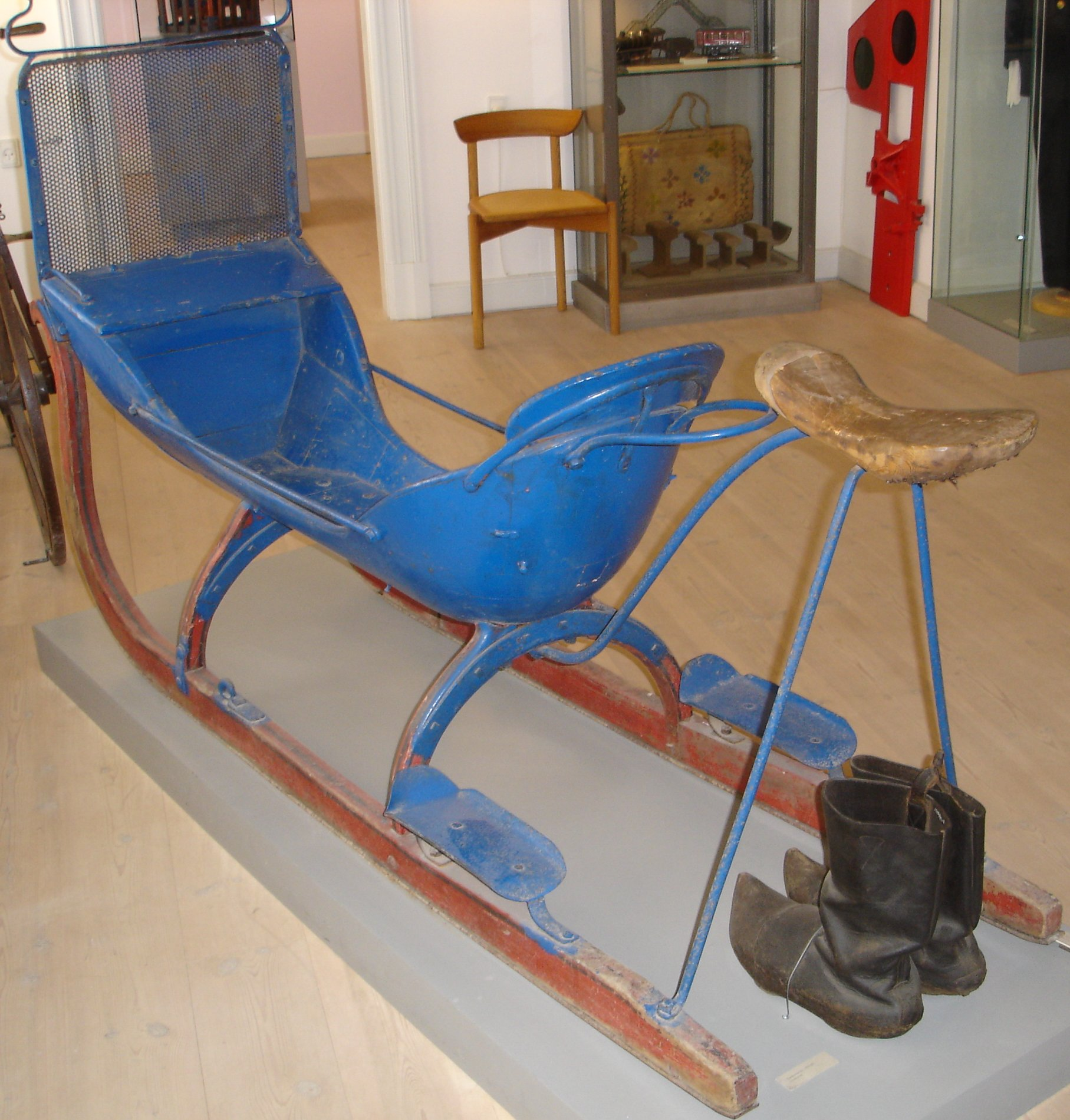 Sled, 2nd half of 19th century, Roskilde Museum, Denmark